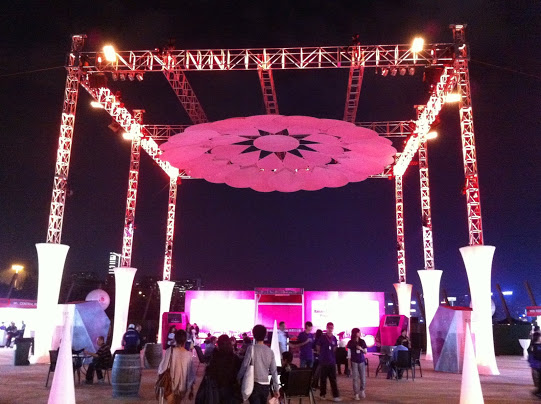 香港美酒佳餚巡禮, Hong Kong Wine and Dine Festival 2012, West Kowloon, Hong Kong